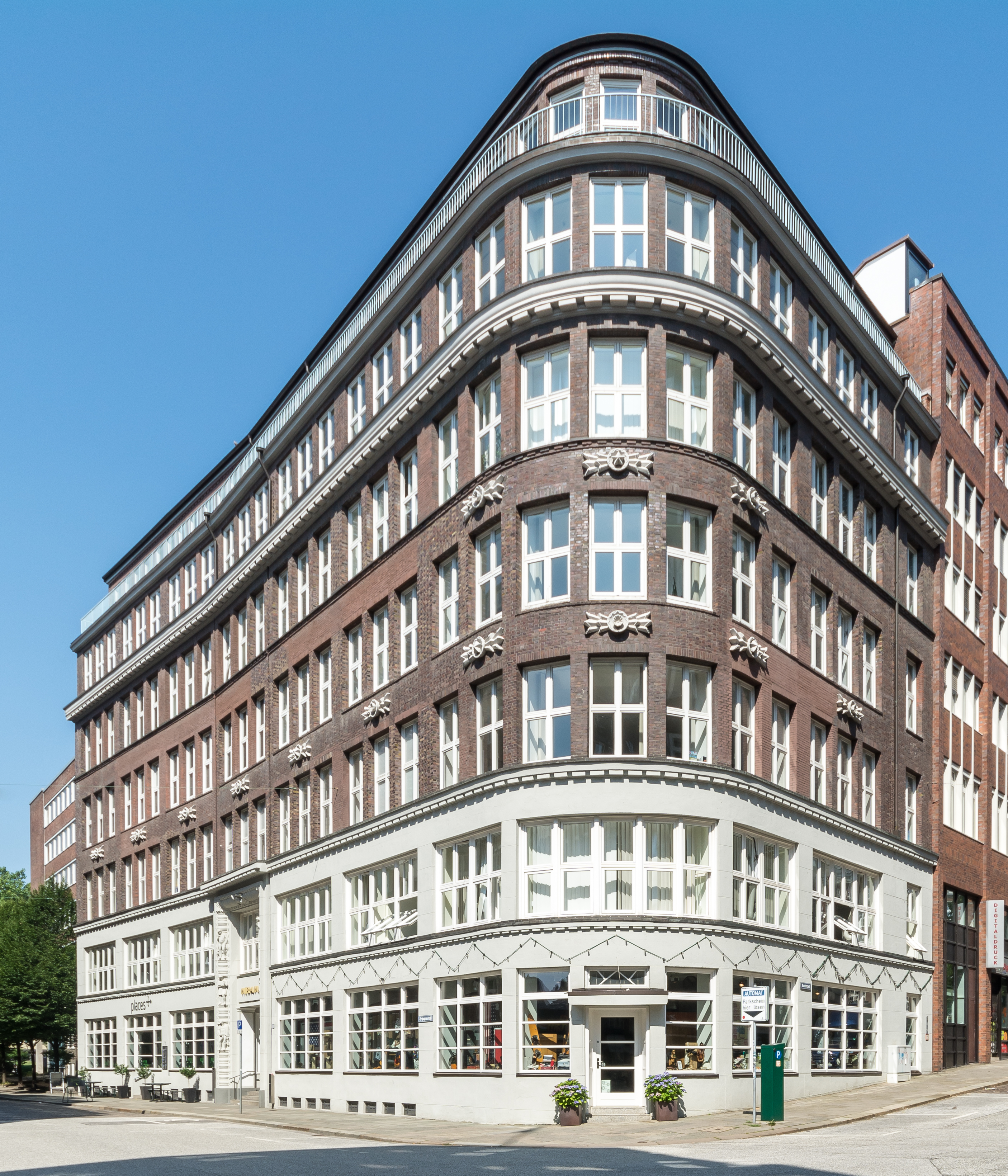 Miramar-Haus office building in Hamburg. This is a photograph of an architectural monument.